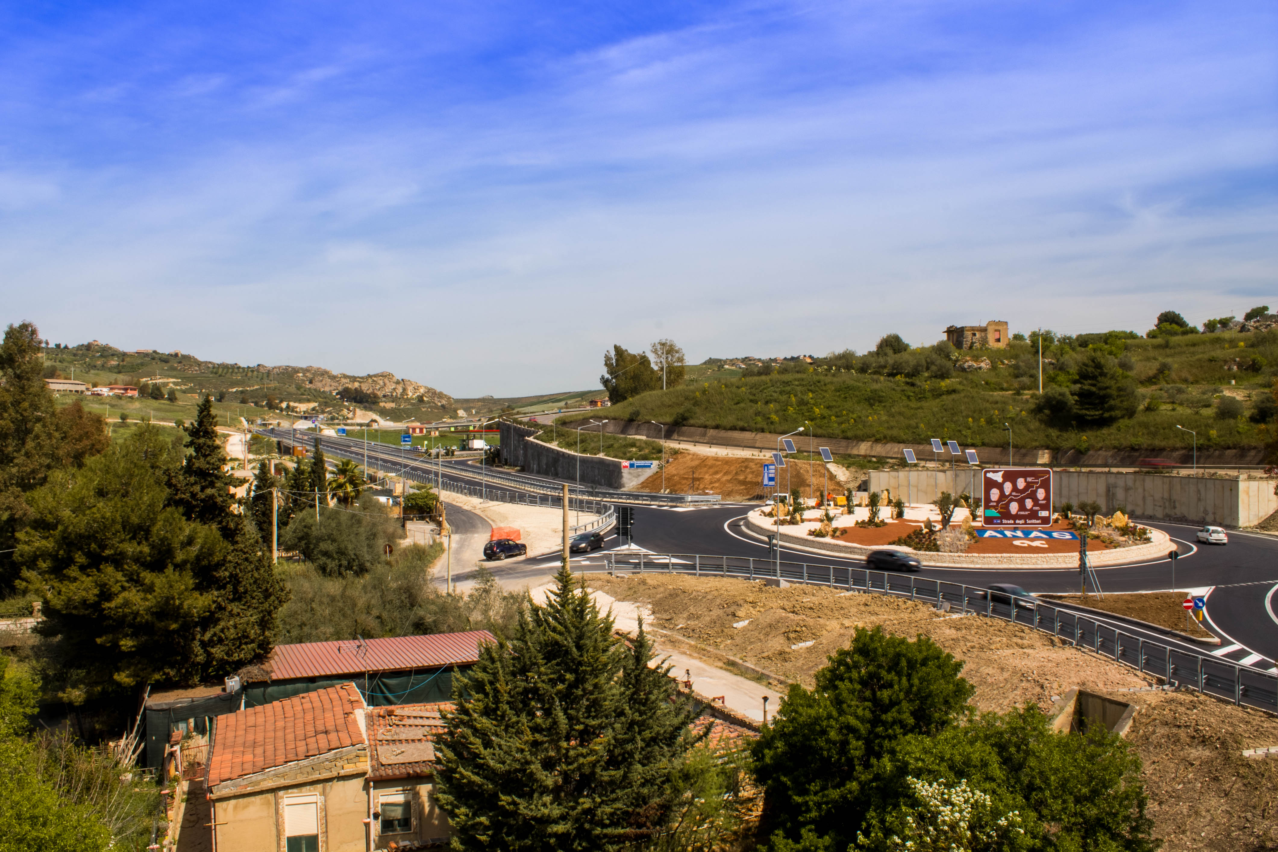 View of SS 640 "Strada degli Scrittori" italian national road near Agrigento, Sicily; in the foreground there is the San Pietro rondabout.